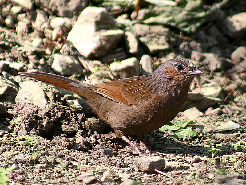 Streaked Laughingthrush Garrulax lineatus in Simla, Himachal Pradesh, India. They prefer scrubby hill sides & seen around bushes near cultivation. Their habit are quite similar to Babblers we see in our cities. They summer above around 7000 ft. to 10000 ft.